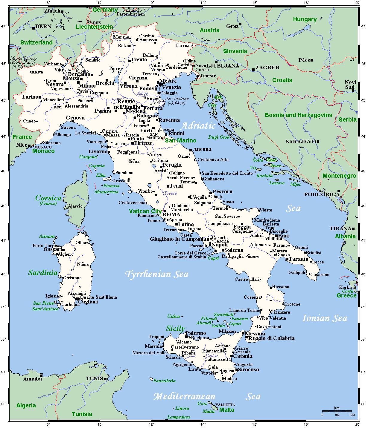 A map showing Italy's cities and main towns. This map's source is here, with the uploader's modifications, and the GMT homepage says that the tools are released under the GNU General Public License.